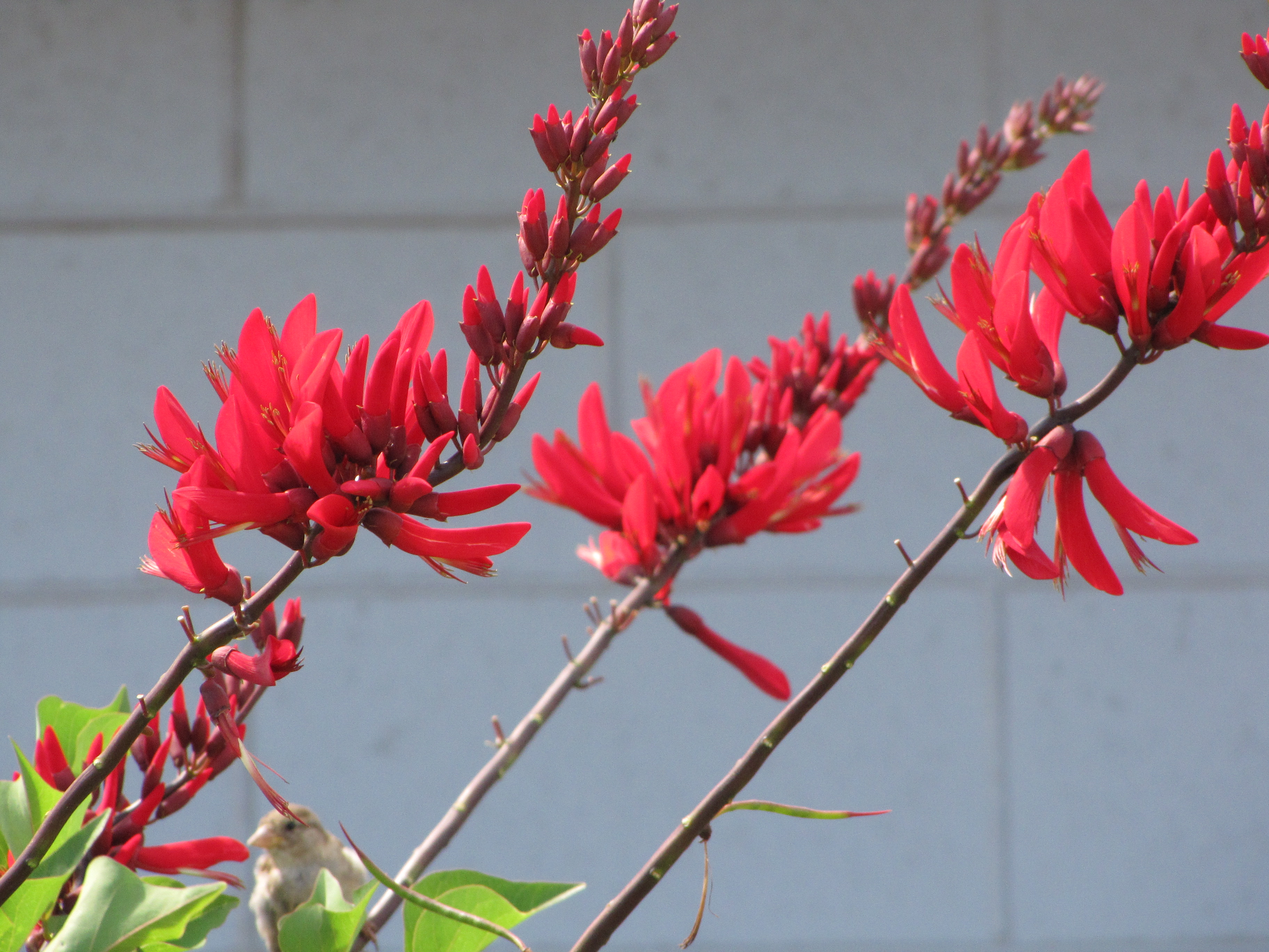 Erythrina crista-galli (Cock's spur coral tree) Flowers at Kahului, Maui, Hawaii. August 13, 2009 #090813-4172 Image Use Policy